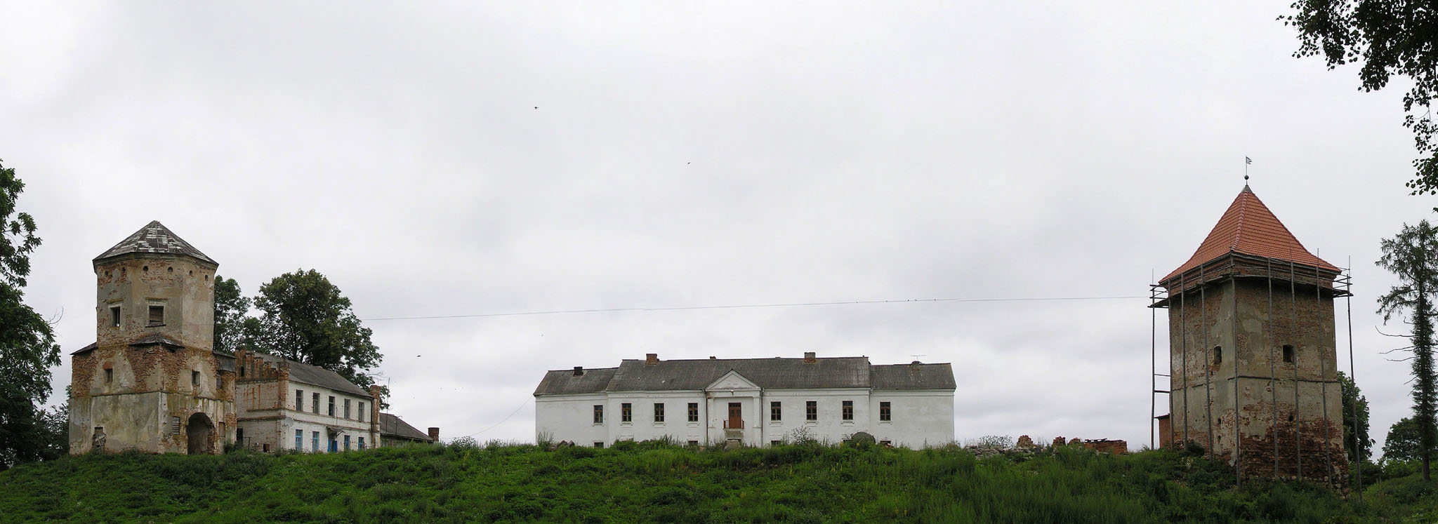 Lubcha Castle, Belarus.